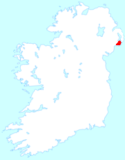 Shows location of Lecale peninsula, County Down, Northern Ireland